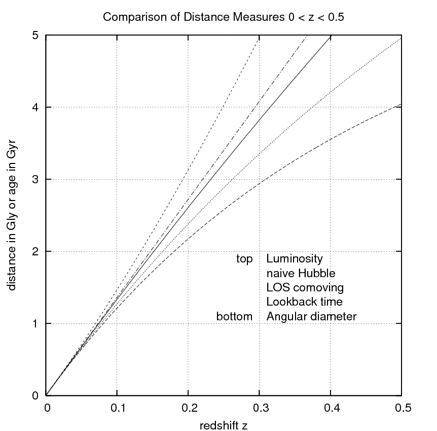 A comparison of cosmological distance measures, from redshift zero to redshift of 0.5. The background cosmology is Hubble parameter 72 km/s/Mpc, Omega_lambda = 0.732, Omega_matter = 0.266, Omega_radiation = 0.266/3454, and Omega_k chosen so that the sum of Omega parameters is one. Wesino 13:25, 3 December 2006 (UTC)